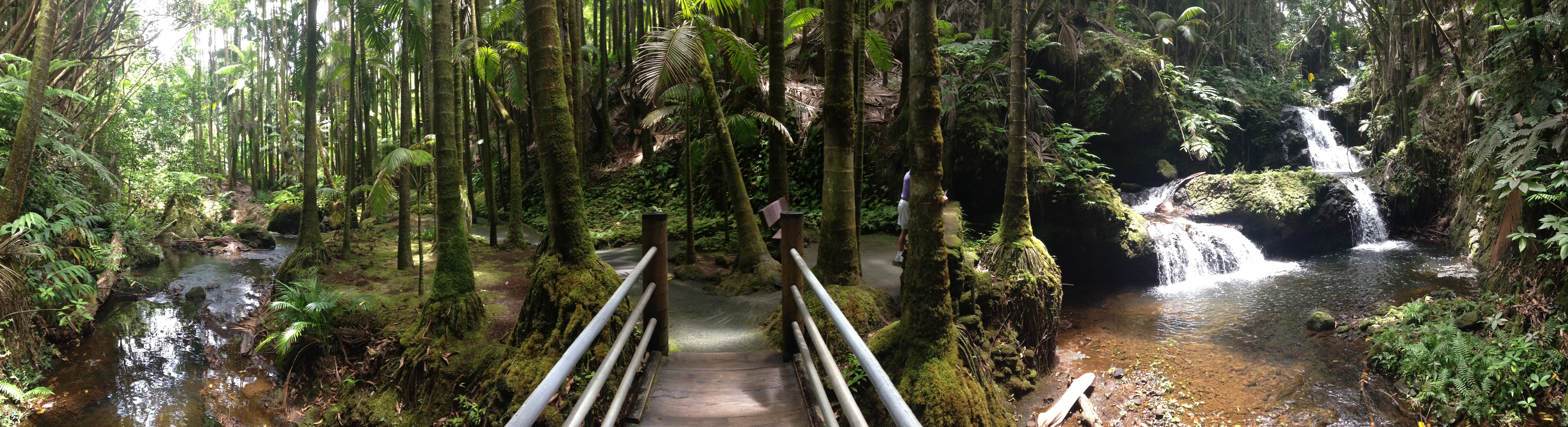 View of the Bamboo Waterfall and Serene Gardens